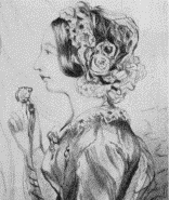 Portrait of Elizabeth Dickens (1789–1863)